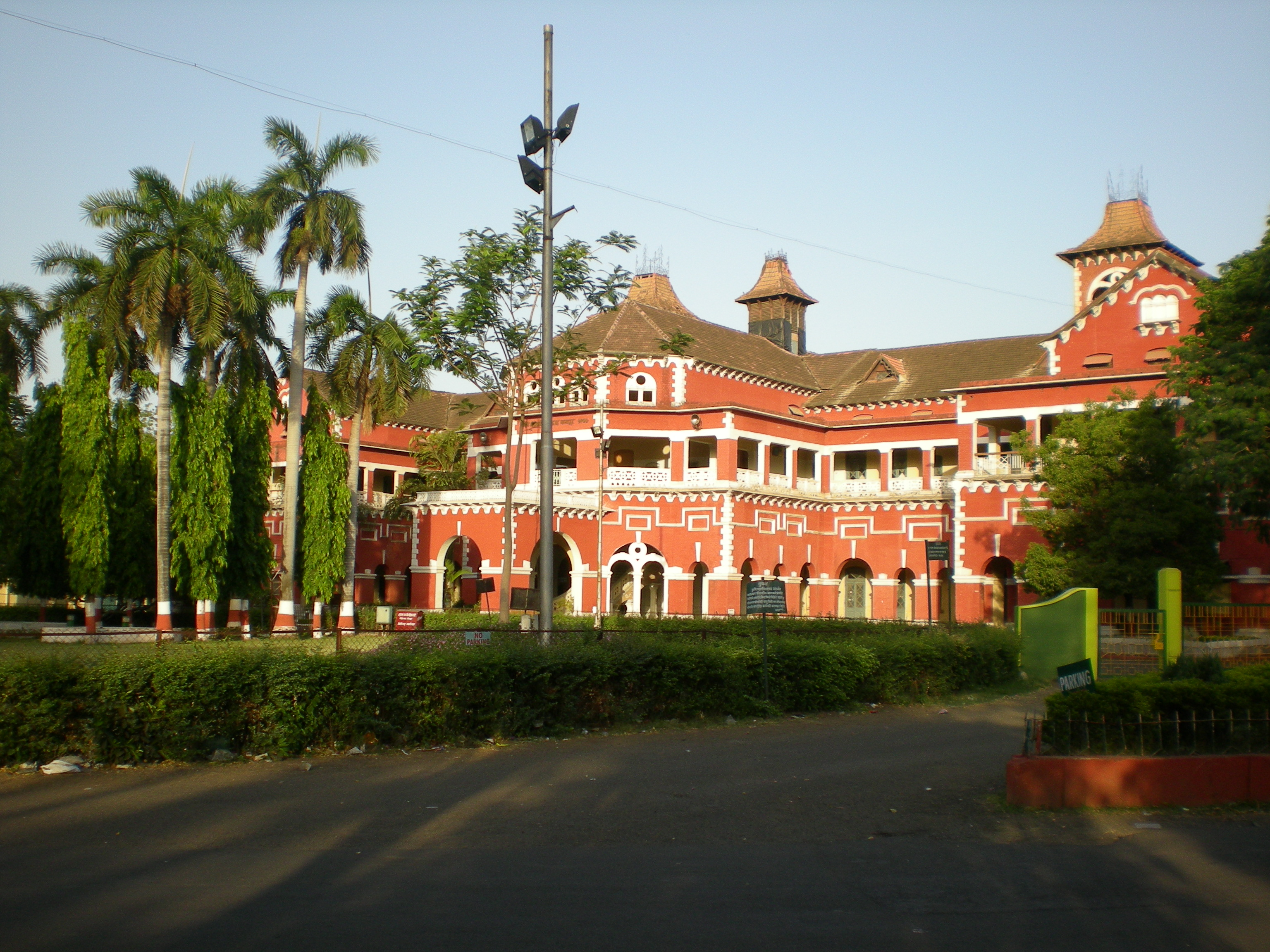 College of Agriculture, Nagpur